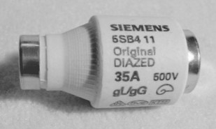 D-fuse 35A gL/gG, size II, Siemens